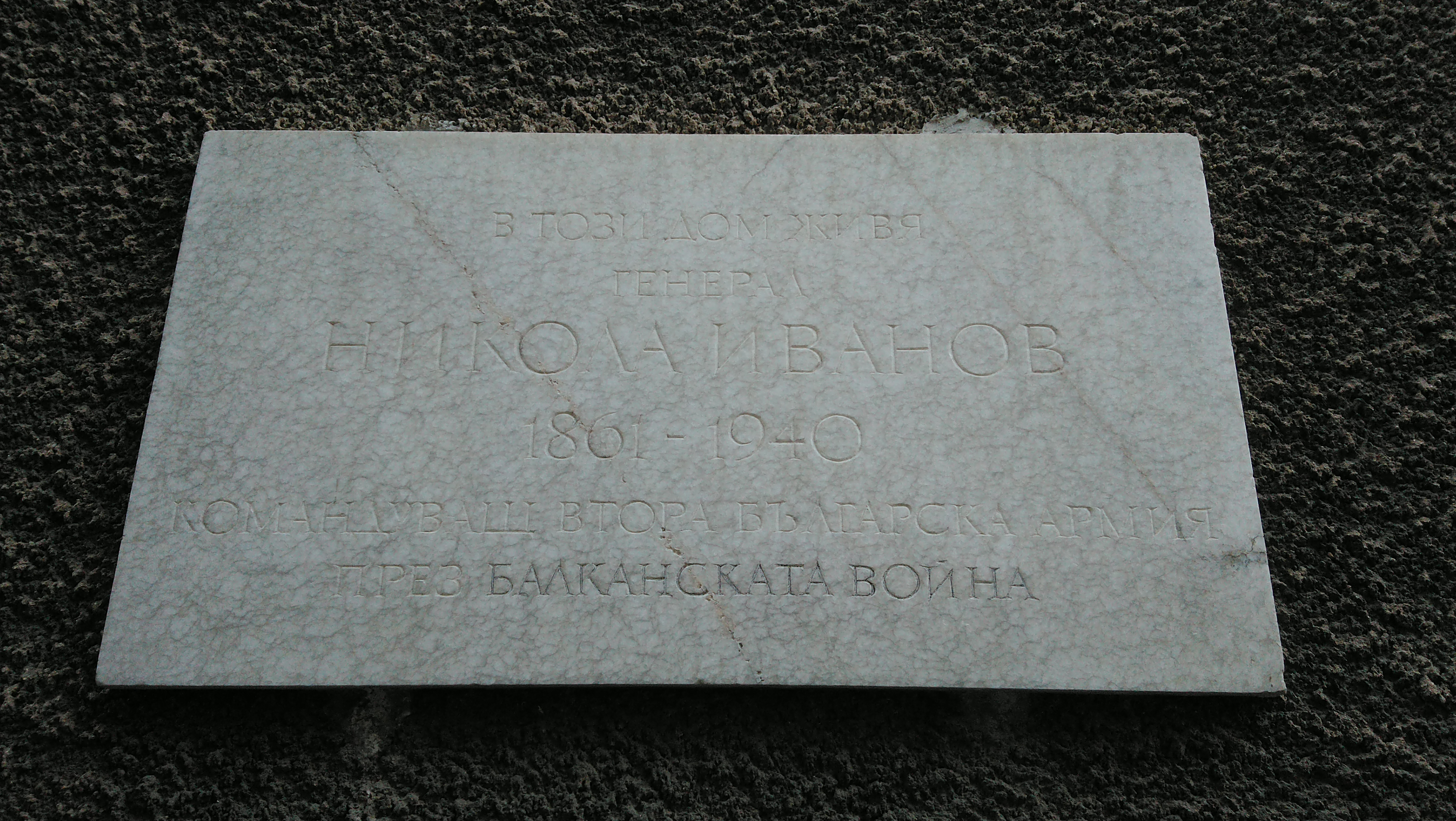 General Nikola Ivanov memorial plaque, 6 Nikolay Pavlovich Str., Sofia